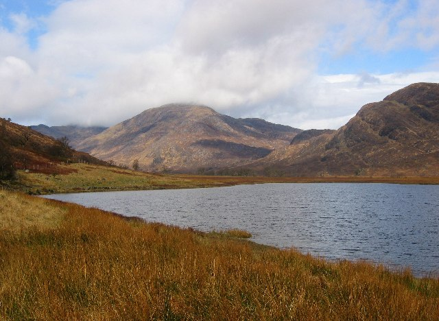 Loch nan Gabhar. Looking up Glen Gour towards Beinn na h-Uamha(762m)